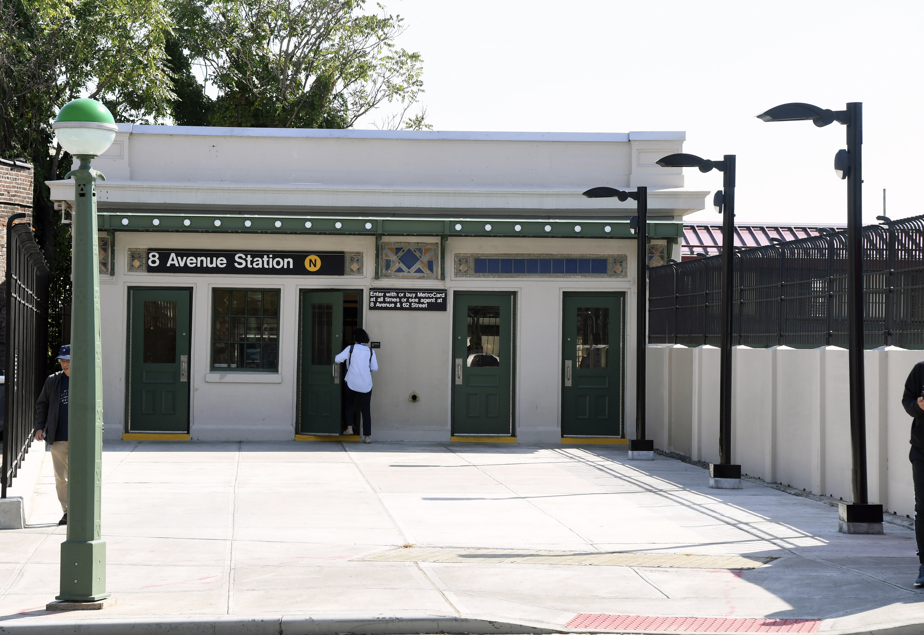 MTA NYC Transit celebrated the reopening of the restored station control house at the 8 Av (N) station in Brooklyn. The restoration included structural repairs as part of the rehabilitation of nine stations on the Sea Beach line. The control house provides customer egress to the Seventh Avenue side of the station. Photos: MTA NYC Transit / Marc A. Hermann